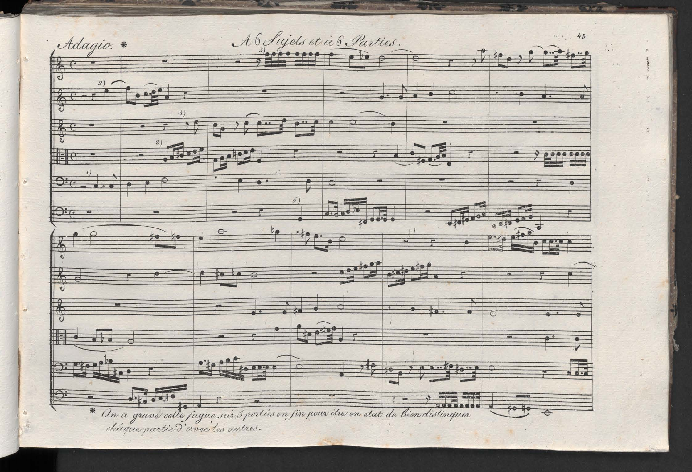 Opening bars of Anton Reicha's Fugue a 6 sujets, No. 15 from "36 Fugues" (1803). This is the six-stave version presented first in Reicha's collection, followed by a two-stave version. Facsimile of the second edition (1805).